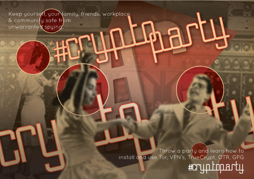 CryptoParty promotional artwork. The computer in the background is the U.S. Navy Bombe which helped break Enigma during WWII.